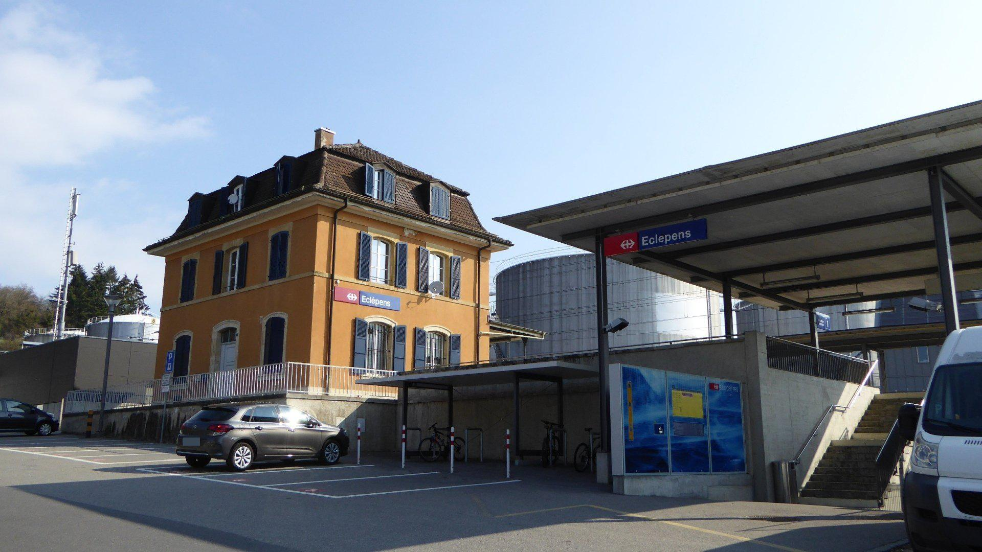 Eclépens railway station in Eclépens, Switzerland.